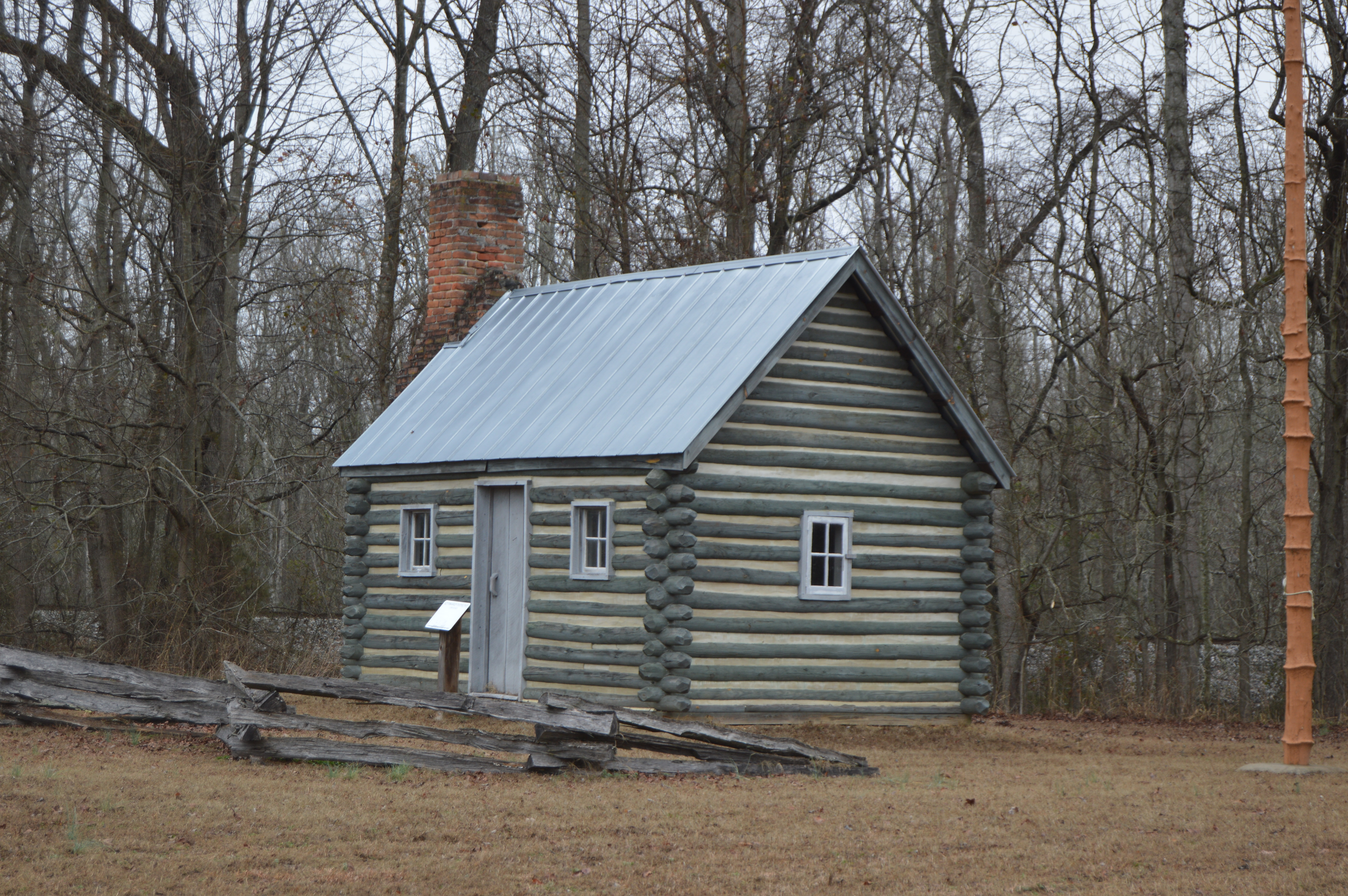 Front and side of a replica log cabin near the entrance to the Pamunkey Indian Reservation in King William County, Virginia, United States. The entire reservation is listed on the National Register of Historic Places as the "Pamunkey Indian Reservation Archaeological District".